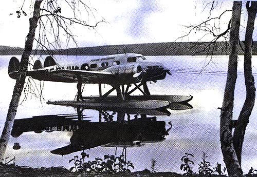 Copyright expired, no restrictions on use. Image originally stored in